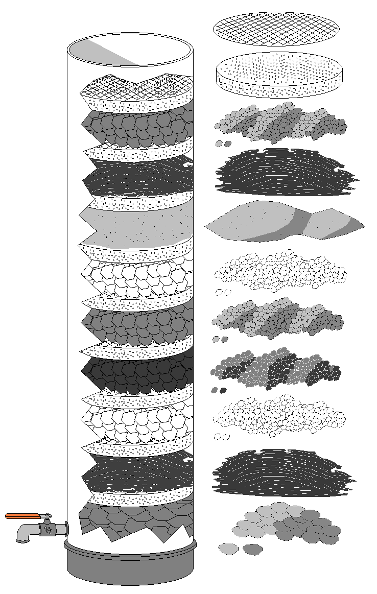 The system of water filtration using PVC pipe. The ingredients inside the pipe are consist of pebble, palm fiber, alum, activated carbon, gravel, chlorine, smooth sand, palm fiber, and gravel (from bottom to top). Each ingredient is separated with sponge filtration and gauze to keep it at fixed place.